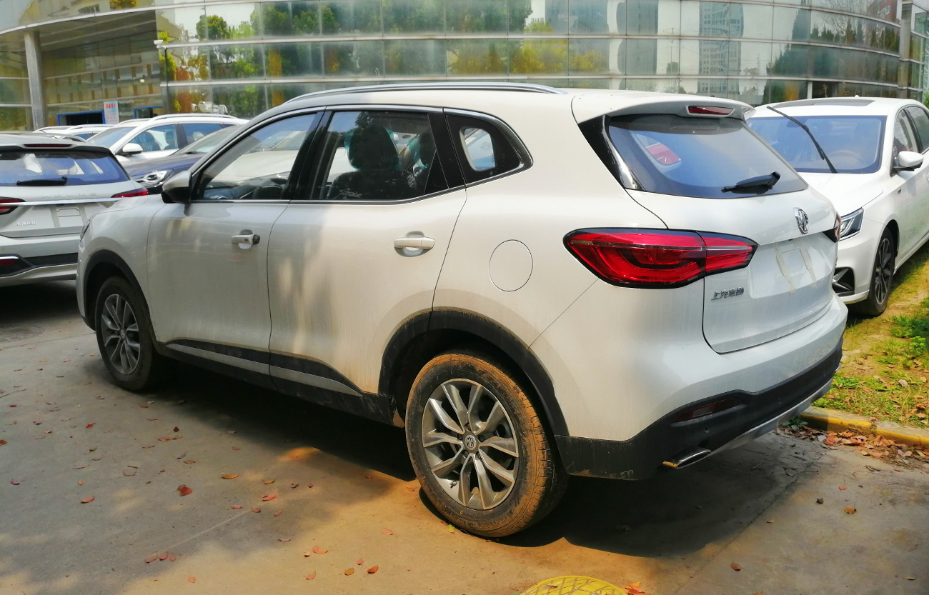 MG HS photographed in Shanghai, China.